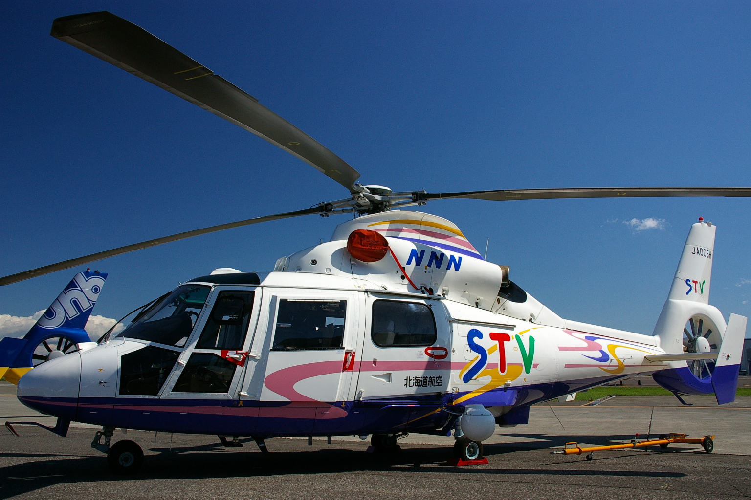 Eurocopter AS365N2, STV, Hokkaido Aviation Co.